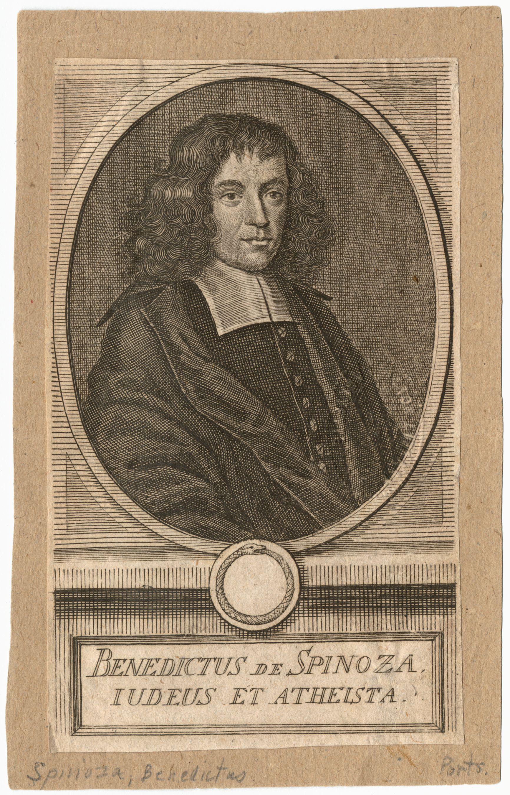 Cover of a publication against Benedictus de Spinoza's work. Text: "Benedictus de Spinoza. Iudeus et atheista."